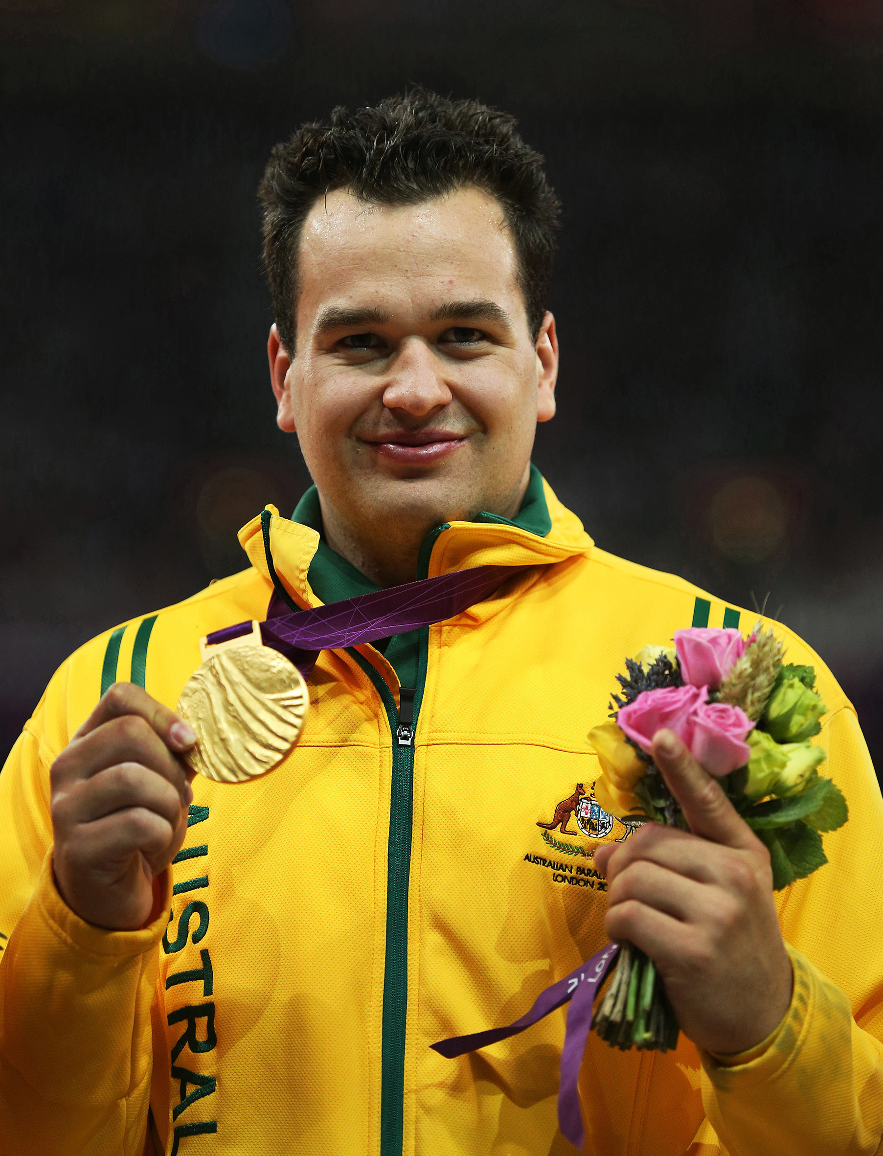 Photograph of Australian Paralympic team member Todd Hodgetts at the 2012 Summer Paralympic Games in London